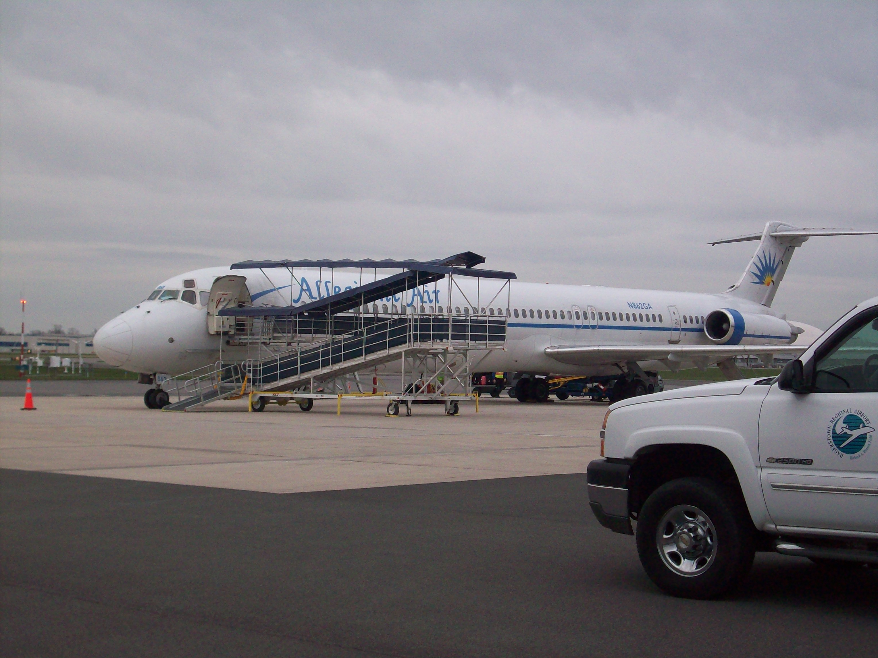 Allegiant Air flight 714 from Hagerstown Regional Airport to Orlando-Sanford International Airport. Aircraft is an MD-83 A.